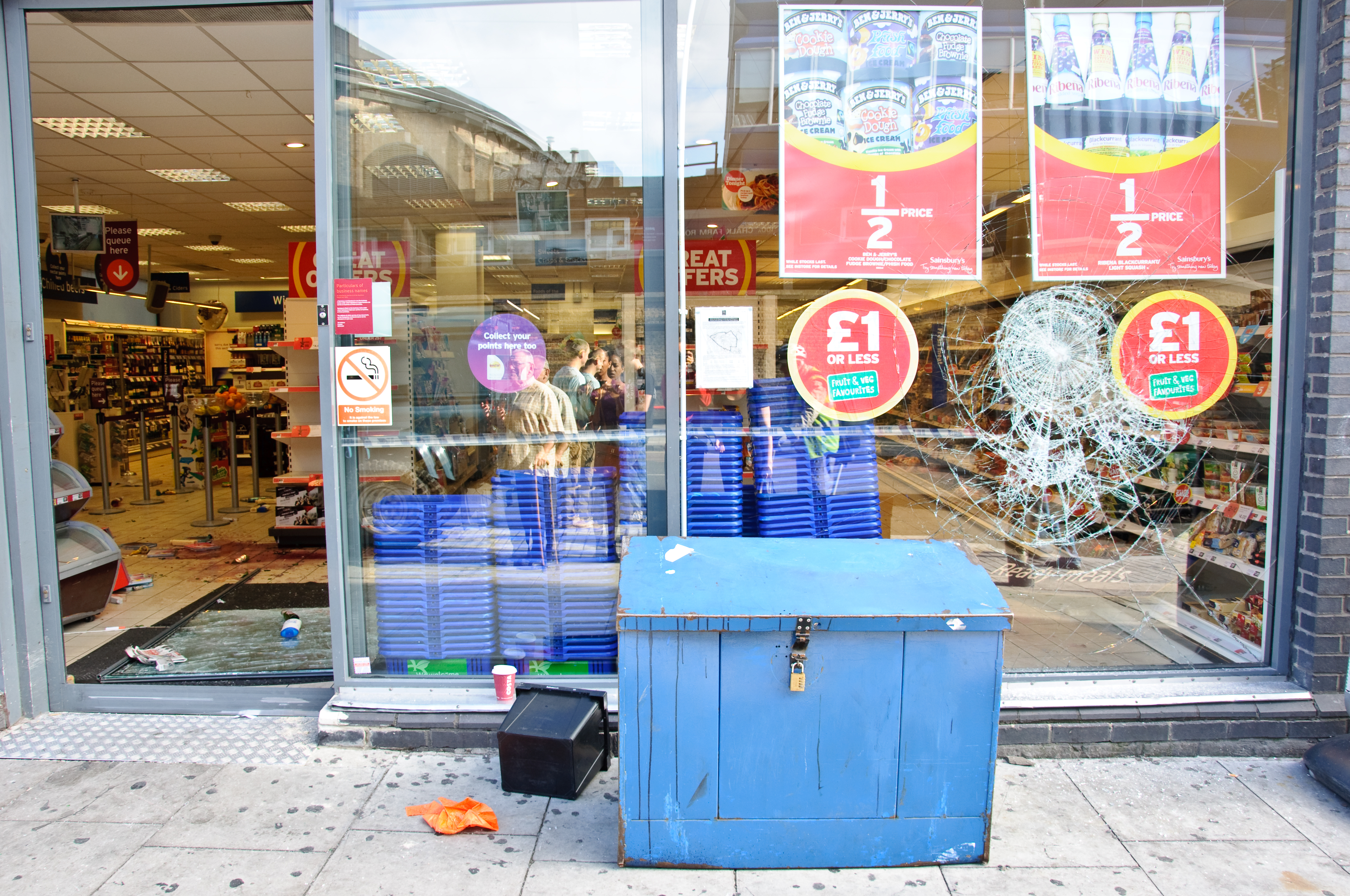 Sainsbury Local Chalk Farm